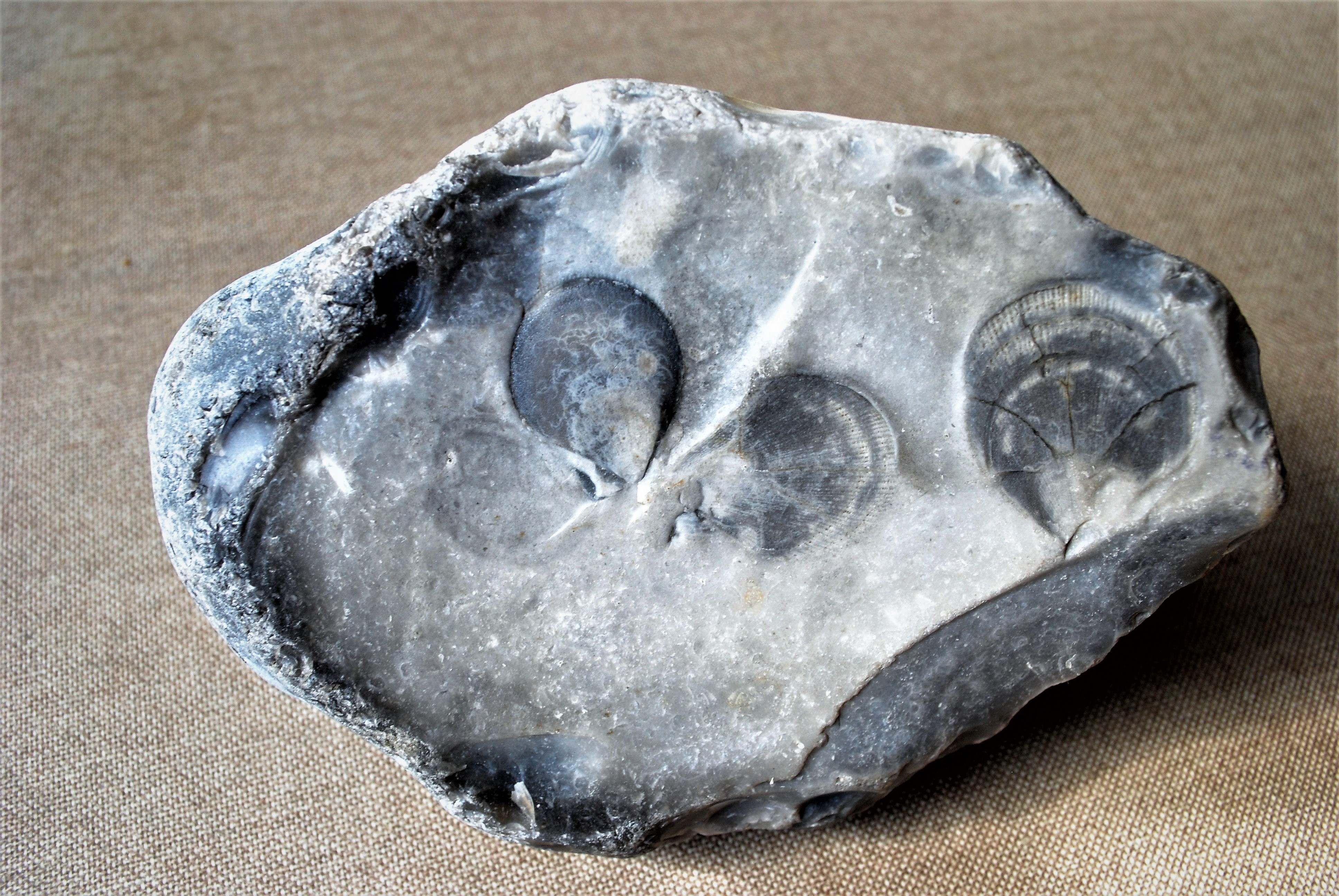 Flint with Bivalves Mimachlamys cretosa fossile. It spanned the interval from 72.1 to 66 million years ago.